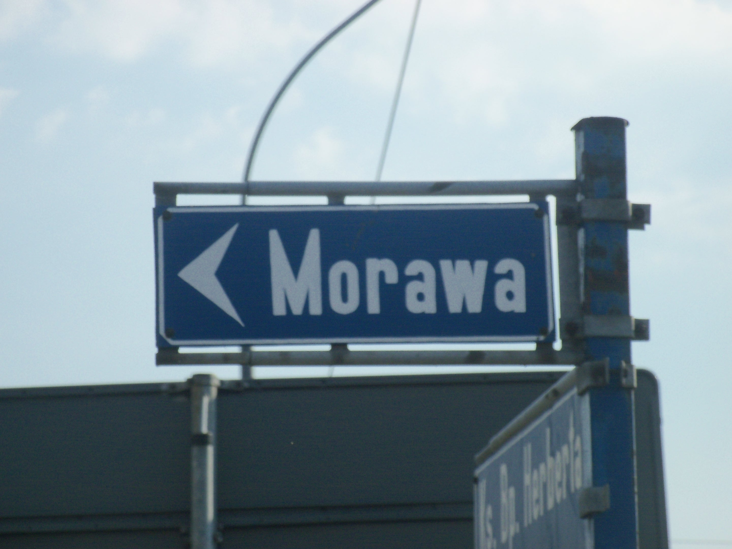 Morawa Street in Katowice